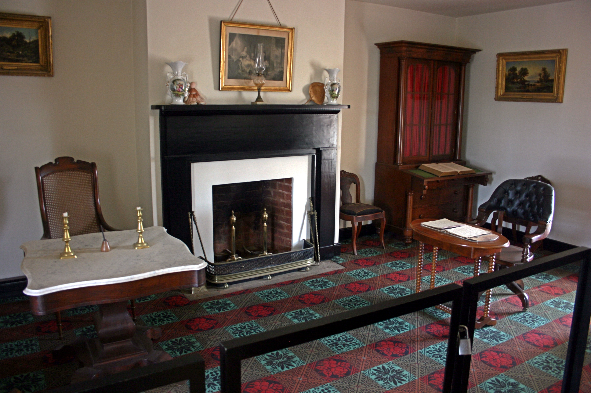 Photograph of the (reconstructed) room of the surrender of the Confederate Army under Robert E. Lee in the McLean House, Appomattox Court House National Historical Park, east of Appomattox, Virginia, USA. The tables are reproductions of the tables used during the surrender; the table to the left was used by Robert E. Lee, the table to the right by Ulysses S. Grant.